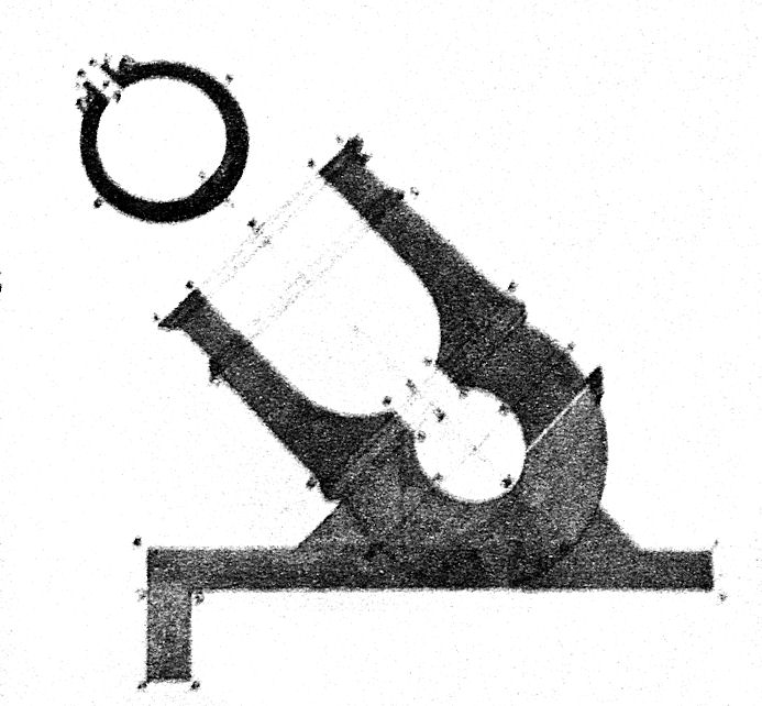 French_mortar_diagram_18th_century.